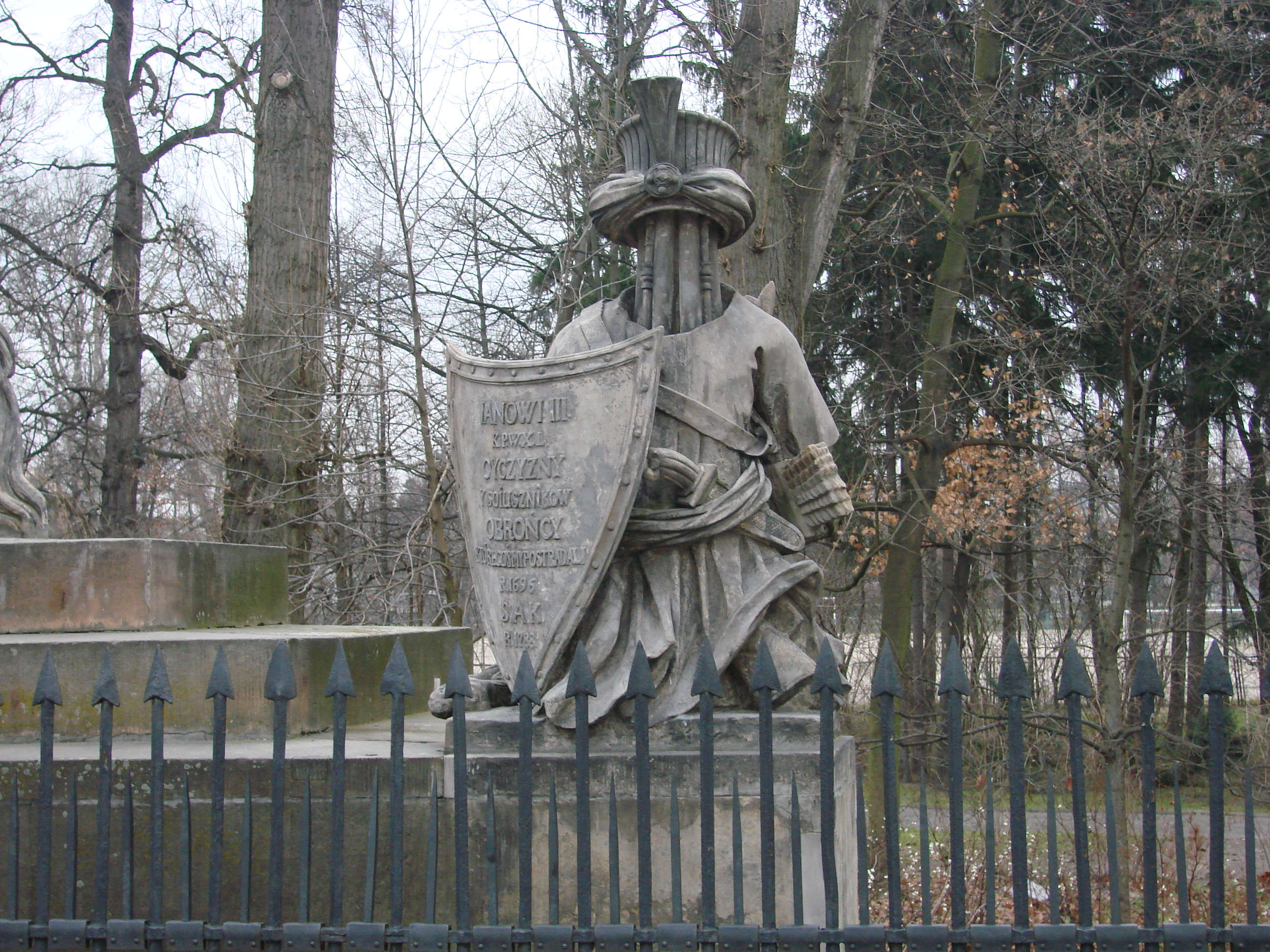 John III Sobieski Monument in Warsaw